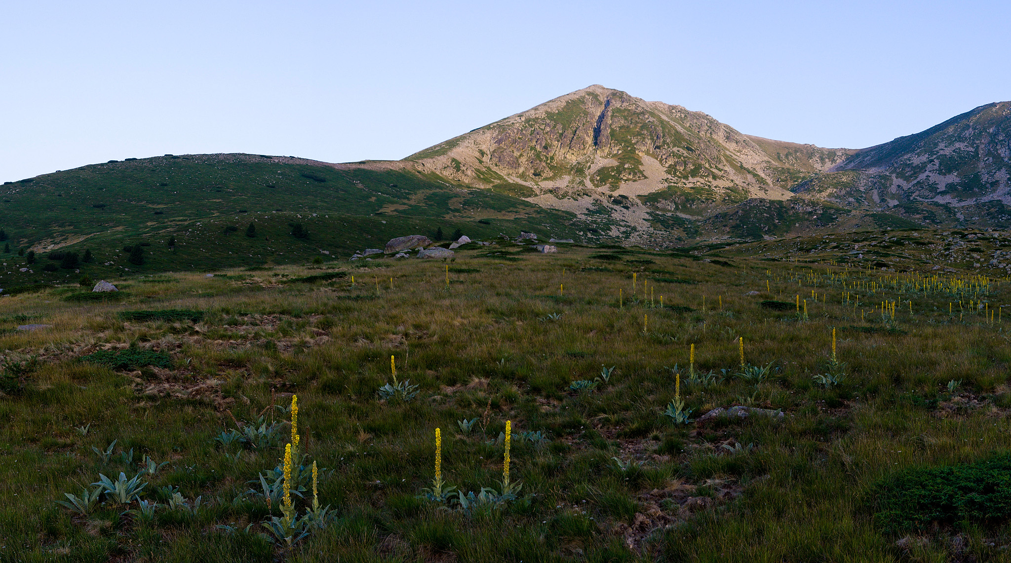 Golena peak, Pirin mountain, Bulgaria